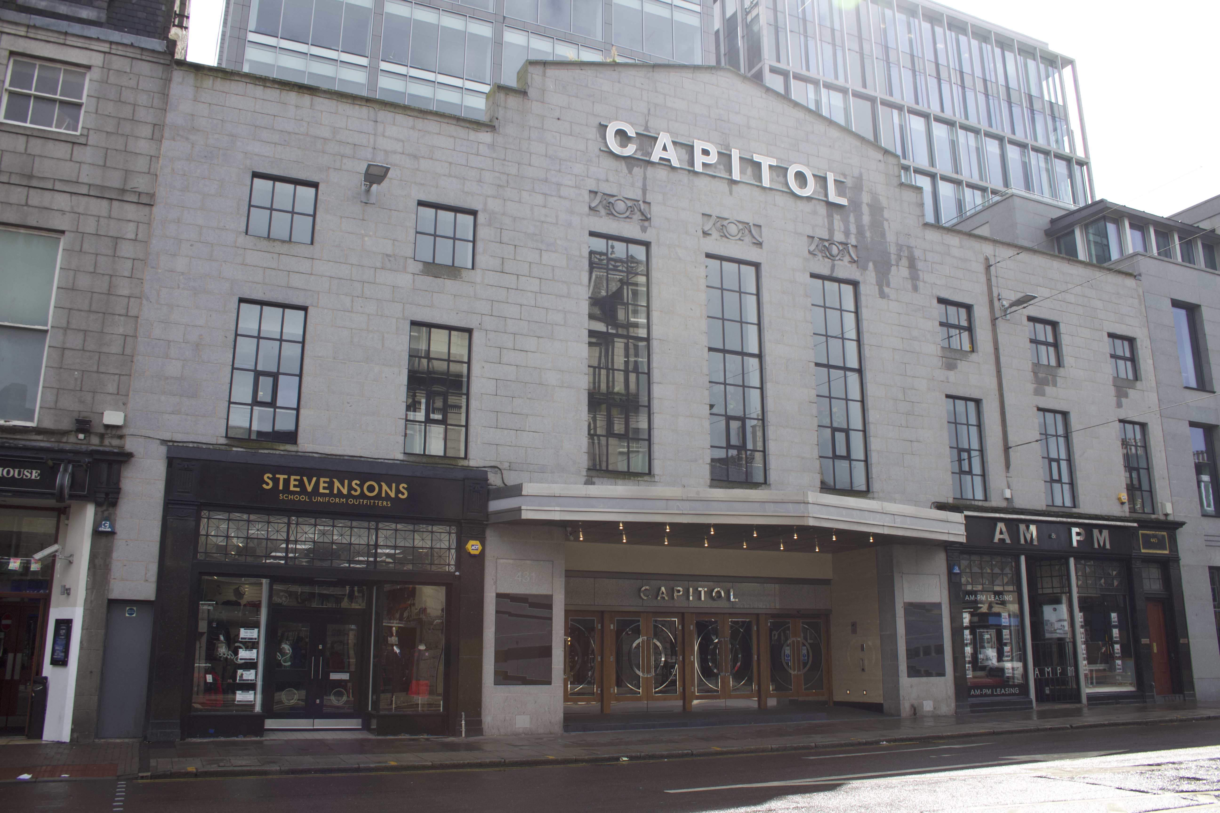 Former Capitol Theatre, cinema in Aberdeen, Scotland. Photo taken August 2019 from Union Street.